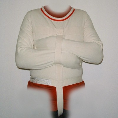 Straitjacket front view own photo